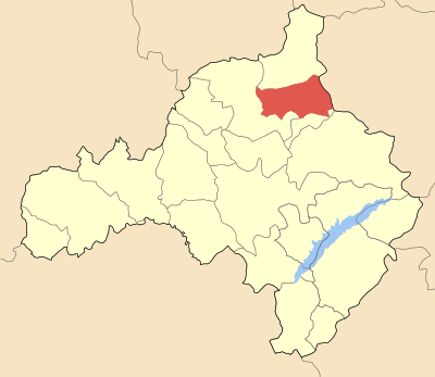 Locator map of Agias Paraskeyis municipality (Δήμος Αγίας Παρασκευής) at Kozani perfecture, Greece.